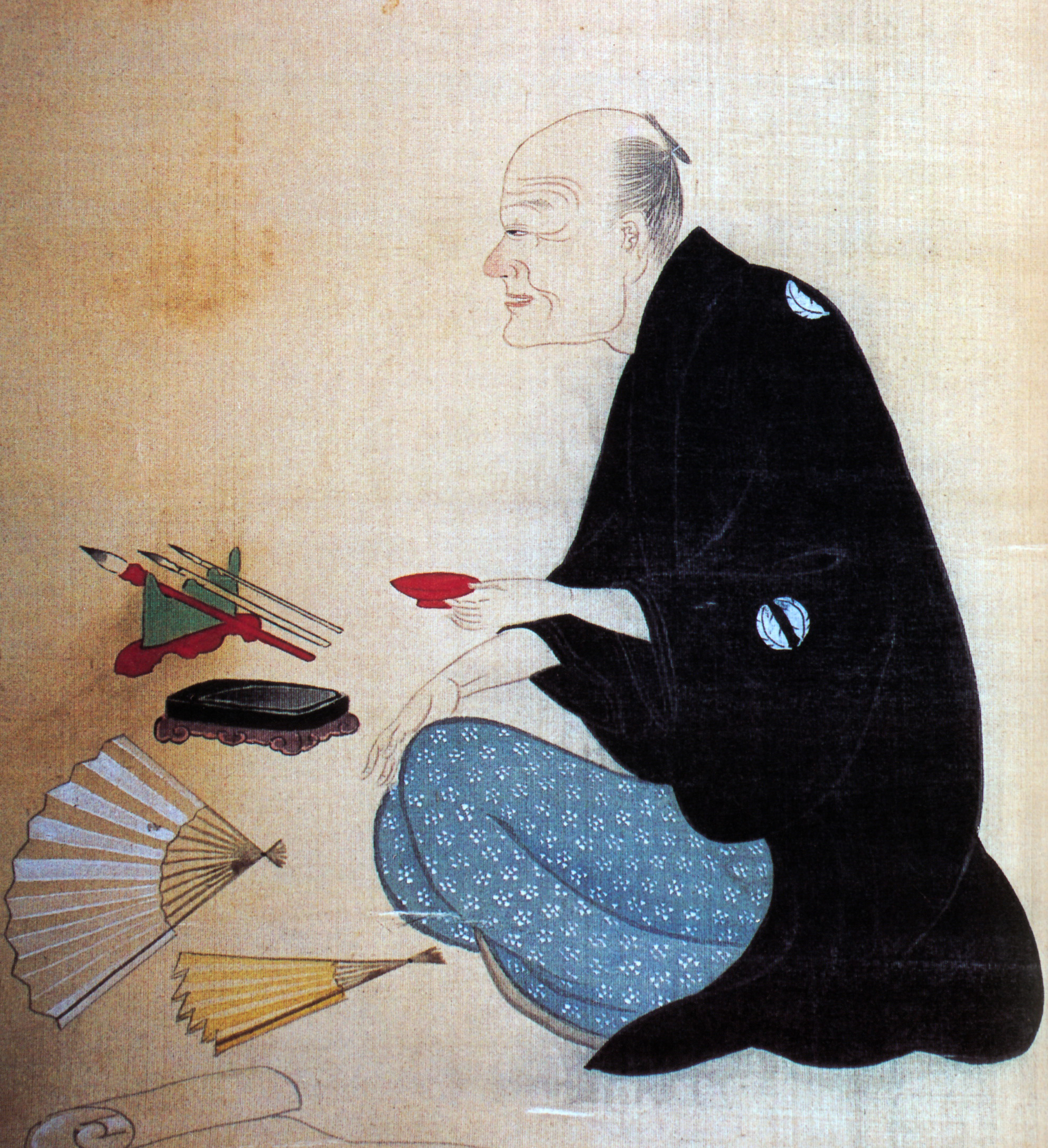 Portrait of Ōta Nampo(1749-1823),hi is Japanese poet and fiction writer.